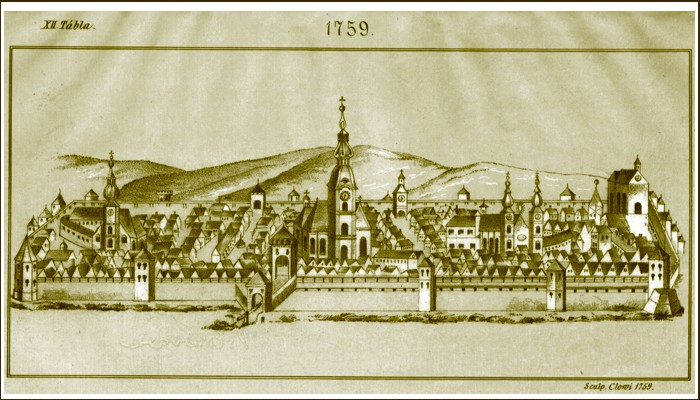 The fortress of Cluj-Napoca, Romania at 1759. Stamp of Janos Szakal